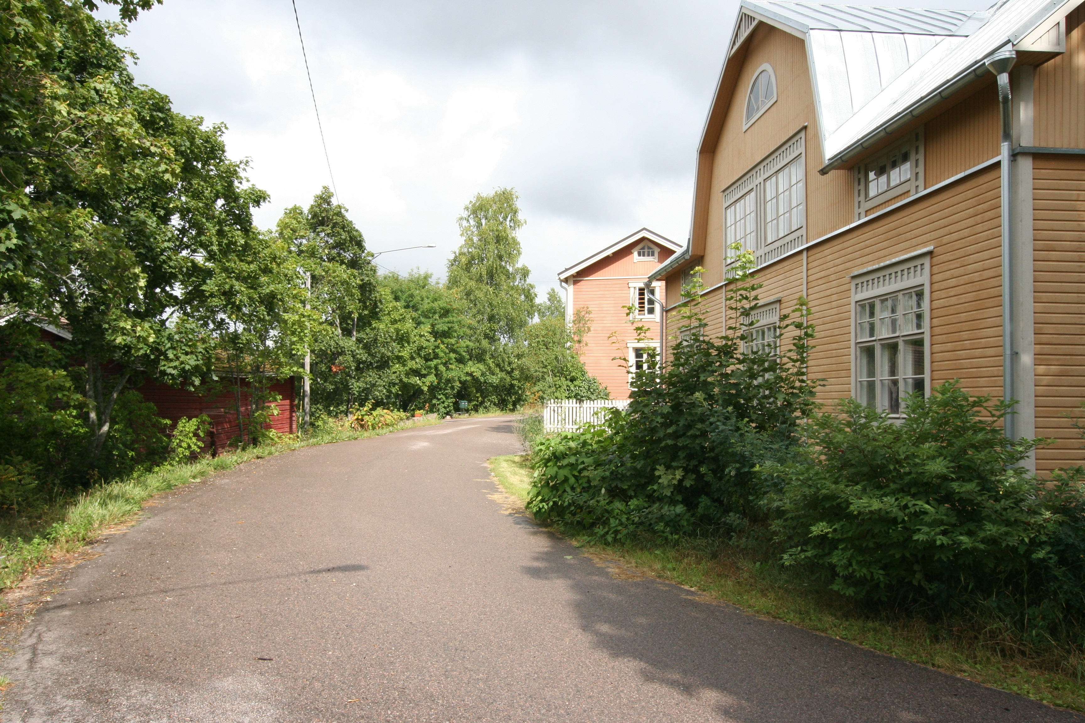 Käkelä Orimattila Finland